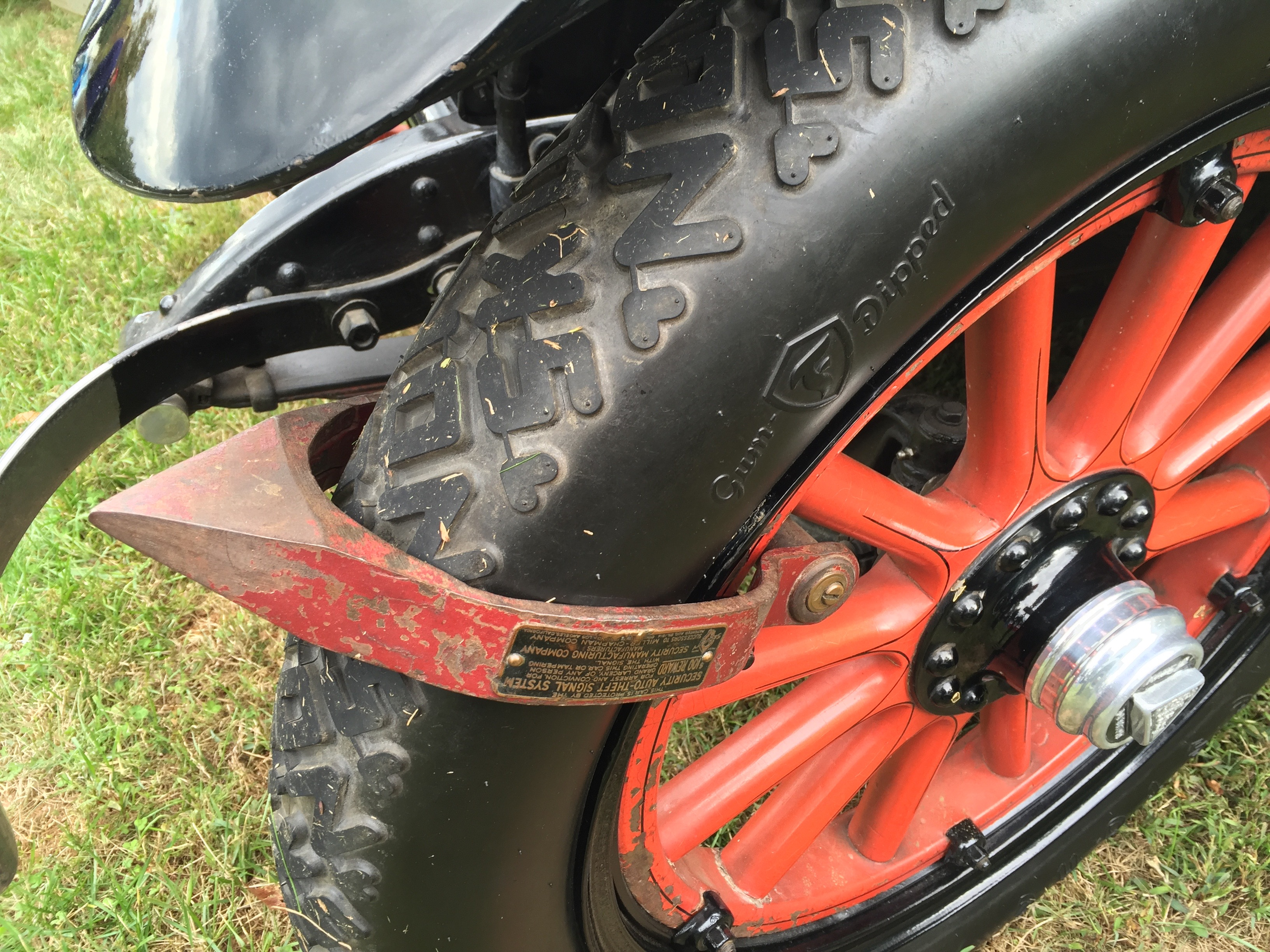 1920 Hudson Speedster Touring car. Body finished in blue with black trim and red wheels. Powered by Hudson's Super Six engine. Picture taken at the 2015 Rockville Antique and Classic Car Show in Maryland.